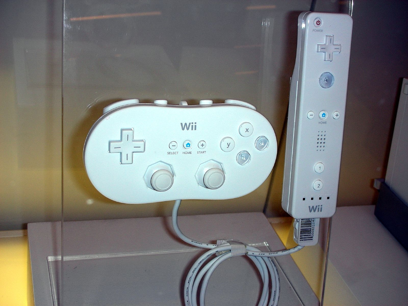 Wii Classic Controller and Wii Remote.